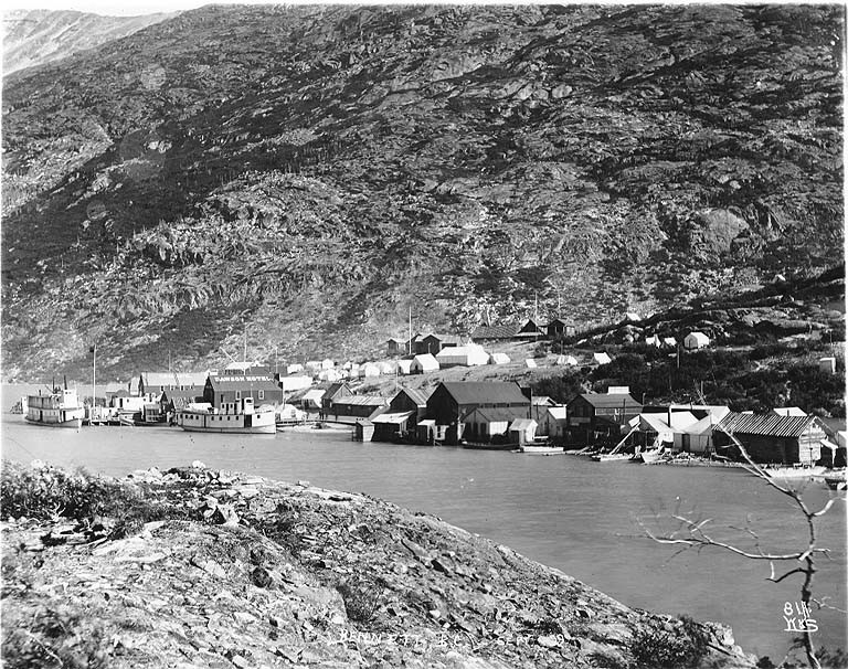 Shows the Dawson Hotel, the Yukon Hotel and steamboats moored at docks . Caption on image: "Bennett, B.C. Sept. '99"" Original image in Hegg Album 21, page 5 . Original photograph by Eric A. Hegg 86; copied by Webster and Stevens 81.A . Klondike Gold Rush. Subjects (LCTGM): Cities & towns--British Columbia; Rivers--British Columbia--Bennett; Waterfronts--British Columbia--Bennett; Steamboats--British Columbia--Bennett Subjects (LCSH): Bennett (B.C.); One Mile River (B.C.)